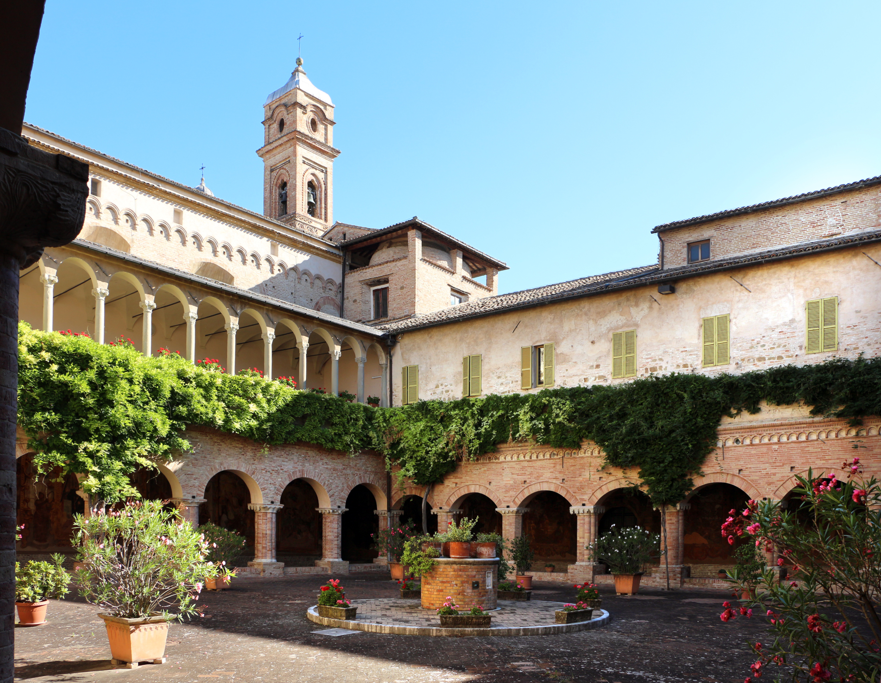 Basilica di San Nicola da Tolentino (Tolentino)